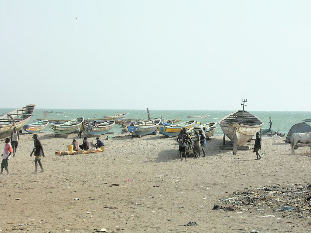 Dugout in front of Atlantic ocean, Senegal